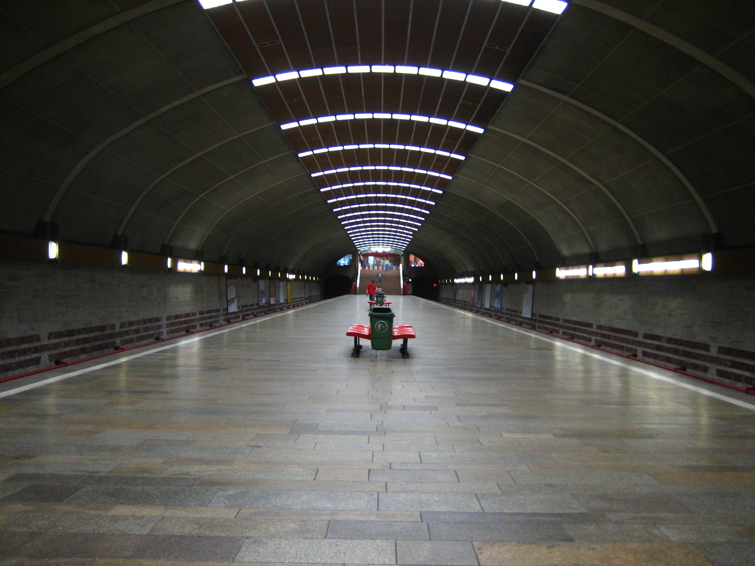 Titan metro station, Bucharest